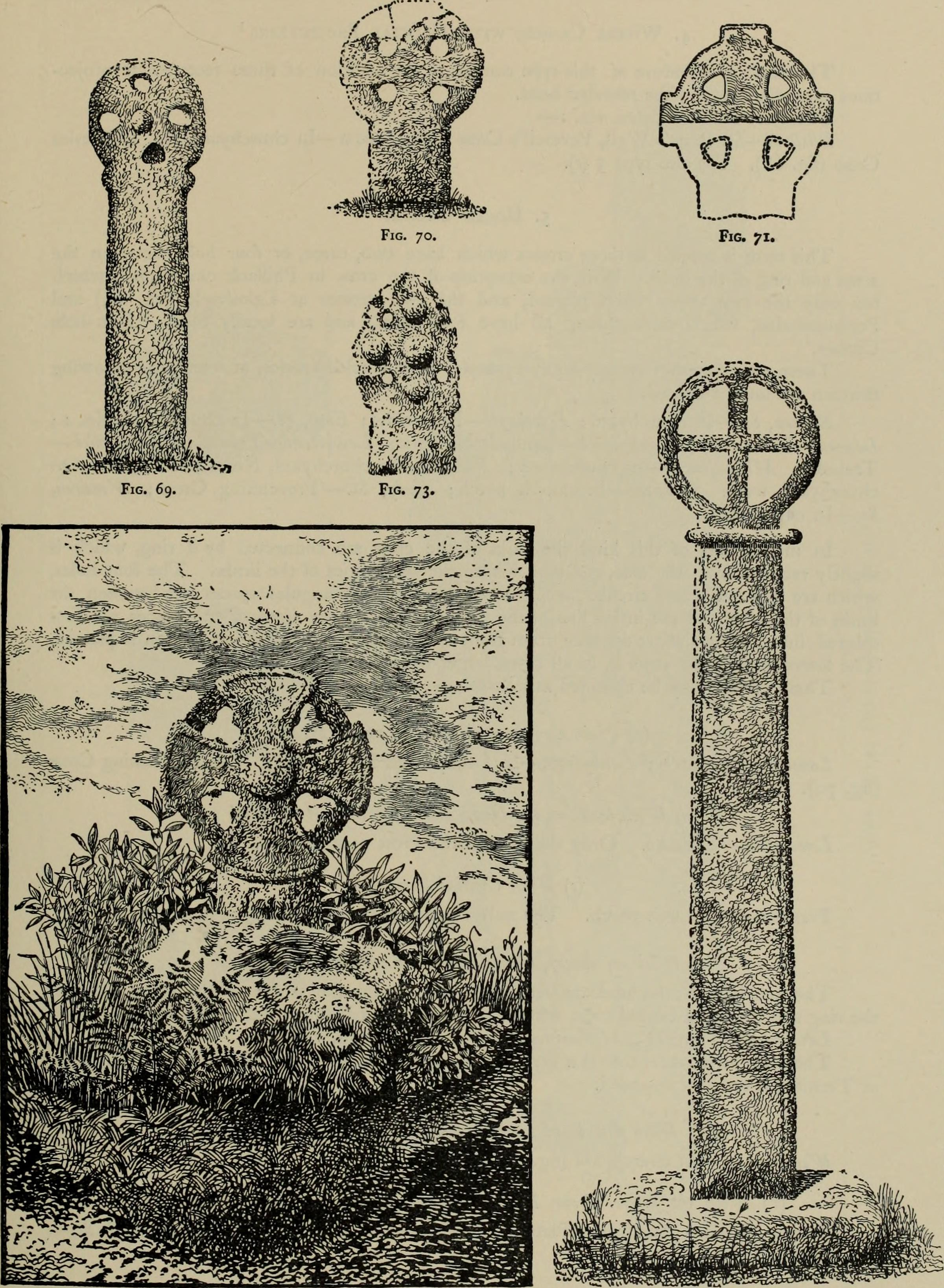 Title: The Victoria history of the county of Cornwall Year: 1906 (1900s) Authors: Page, William, 1861-1934 Subjects: Natural history Publisher: London : (A. Constable and Company) Text Appearing Before Image: Fig. 75. Crosses with Projections at the Neck, etc., and Latin Crosses. Fig. 63. Basil, No. i—Fig. 64. St. Juliot, No. 2—Fig. 65. HoUoway Cross—Fig. 66. St. Allen—Fig. 67. New Park-Fig. 68. Treslea Cross—Fig. 75. St. Minver—Fig. 76. Carlanken—Fig. 77. Trerank. EARLY CHRISTIAN MONUMENTS PLATE XI Text Appearing After Image: Fig. 74. Fig. 72. Holed Crosses Fig. 69. Three-hole Cross—Fig. 70. Trevenning Cross—Fig. 71. Tresmeer—Fig. 72. Michaelstow—Fig. 73. St. Wendron —Fig. 74. Pencarrow. A HISTORY OF CORNWALL 4. Wheel Crosses with Crucial Projections ^ The distinctive feature of this type consists in the addition of three rectangular projections extending beyond the rounded head. There are four examples, viz. :— Blisland—St. Pratts Well, Peverells Cross ; Cardinham—In churchyard, No. I, TresleaCross (fig. 68). See also type 5 (c). 5. Holed Crosses This term is applied to those crosses which have two, three, or four holes between the arms and ring of the head. With the exception of the cross in Phillack churchyard, which has only the two upper holes pierced, and the two crosses at Egloshayle (fig. 69) and Perranzabuloe, which have three, all have four holes, and are locally called Four-hole Crosses. There are altogether twenty-eight examples of four-holed crosses, of which the following thirteen